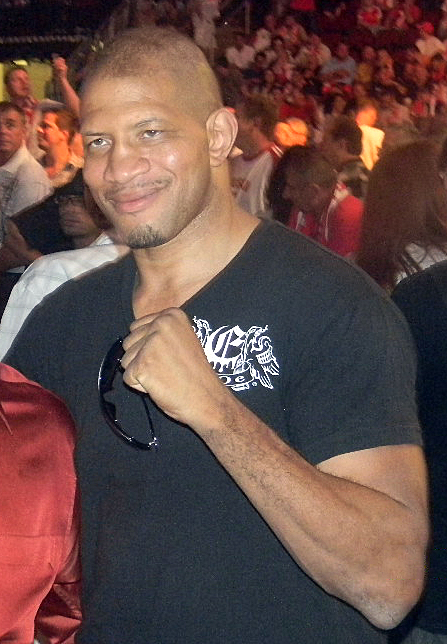 Al Cole at the ringside of the Prudential Center in Newark, New Jersey on August 21, 2010